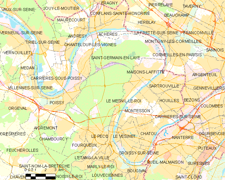 Map of French municipality Saint-Germain-en-Laye